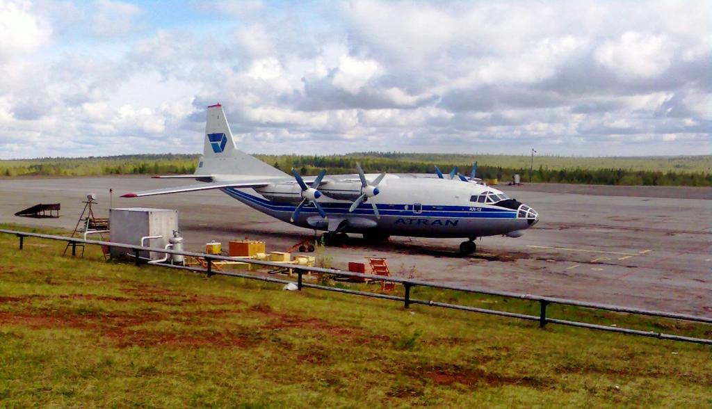 The plane Antonov An-12 at Ust-Kut airport